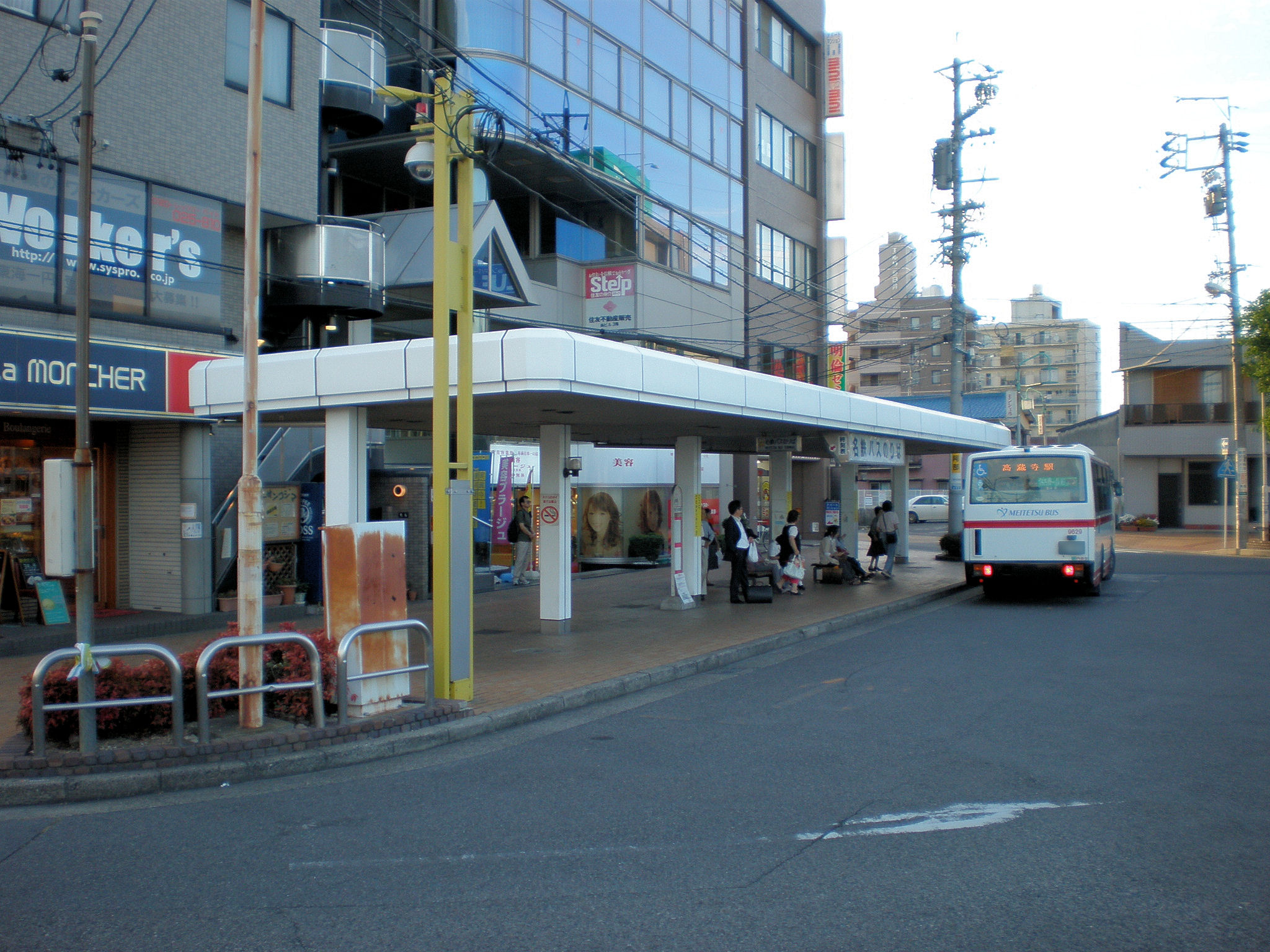 Meitetsu Bus Kasuigai-eki (Kasugai Station) Bus Stop in Kasugai City, Aichi Prefecture, Japan